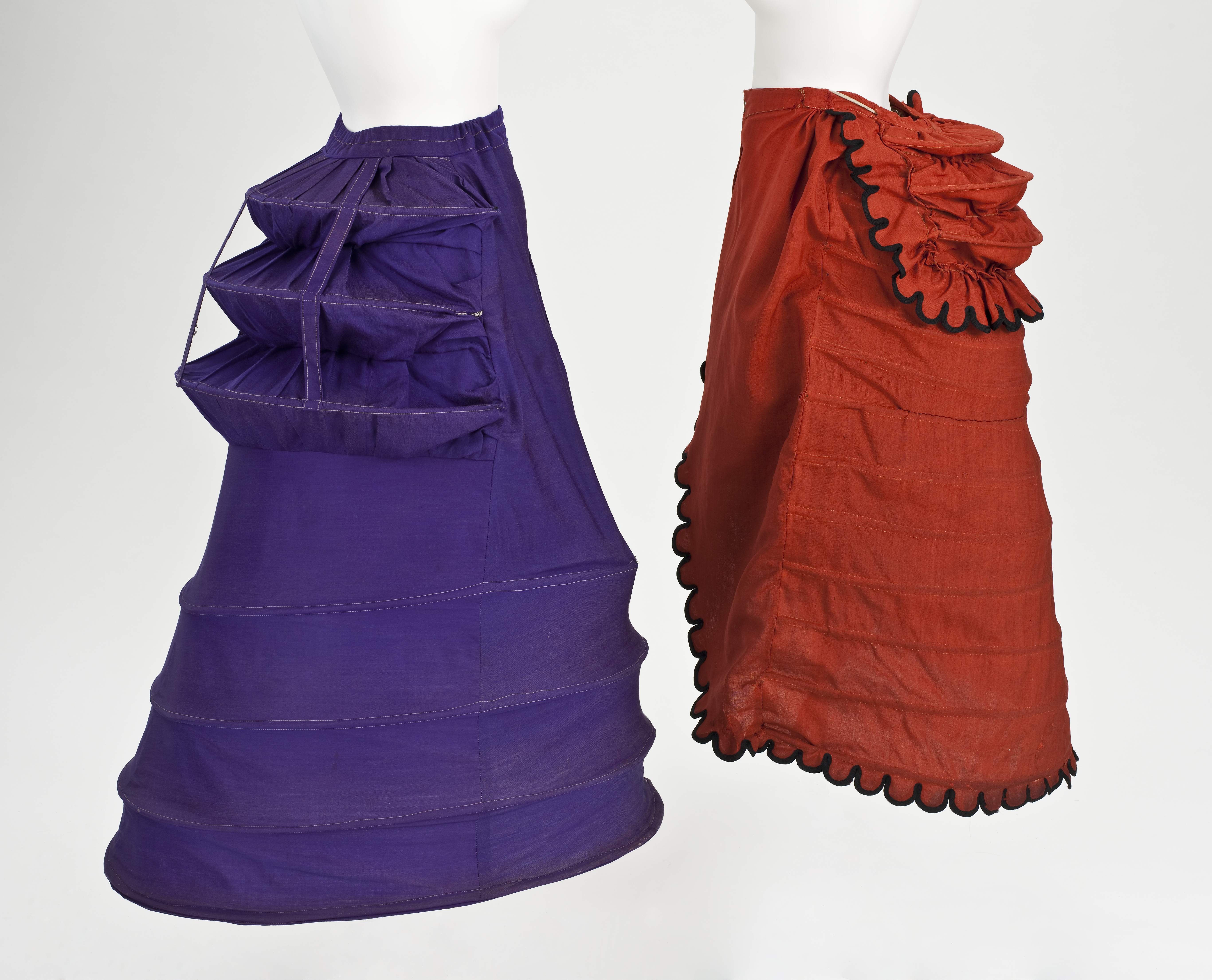 Woman's cage crinolettes (with bustles), England, 1872-1875 Left: Purple cotton and wool twill with steel. Right: Red wool plain weave, cotton plain weave, cotton-braid-covered steel, cotton twill tape, and wool-braid trim.